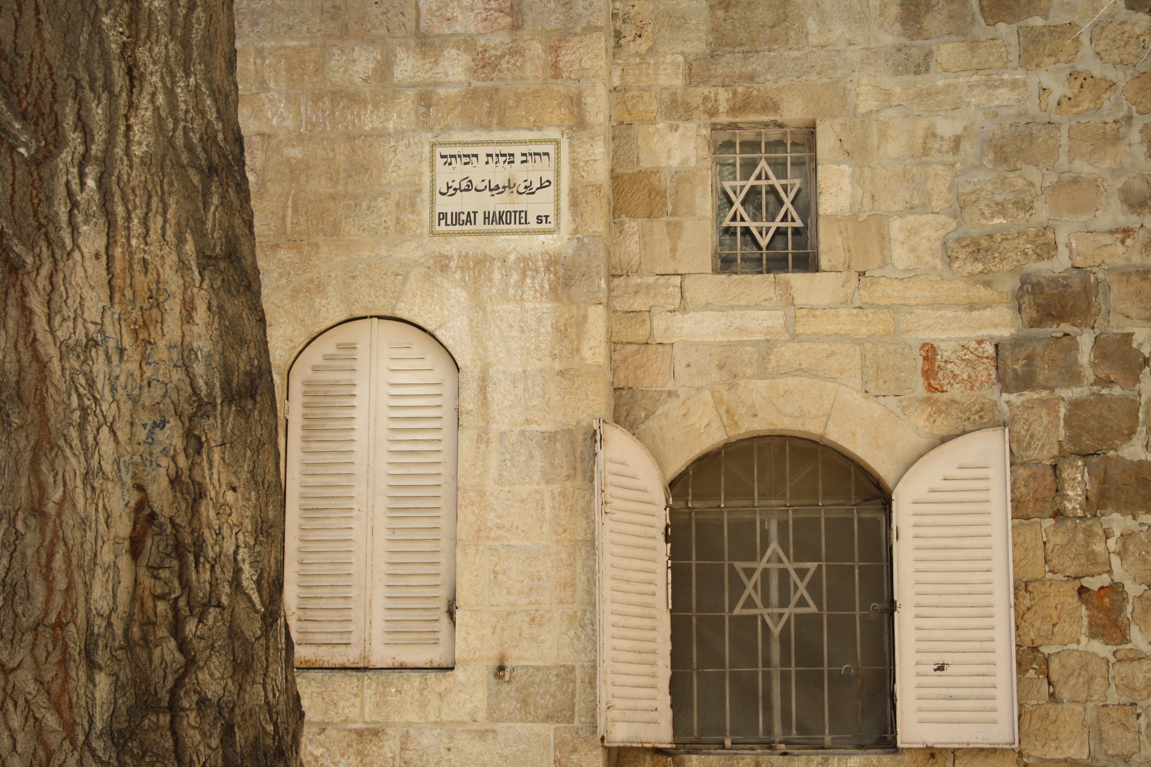 Plugat HaKotel Street in the Old City of Jerusalem. Star of David at the window.